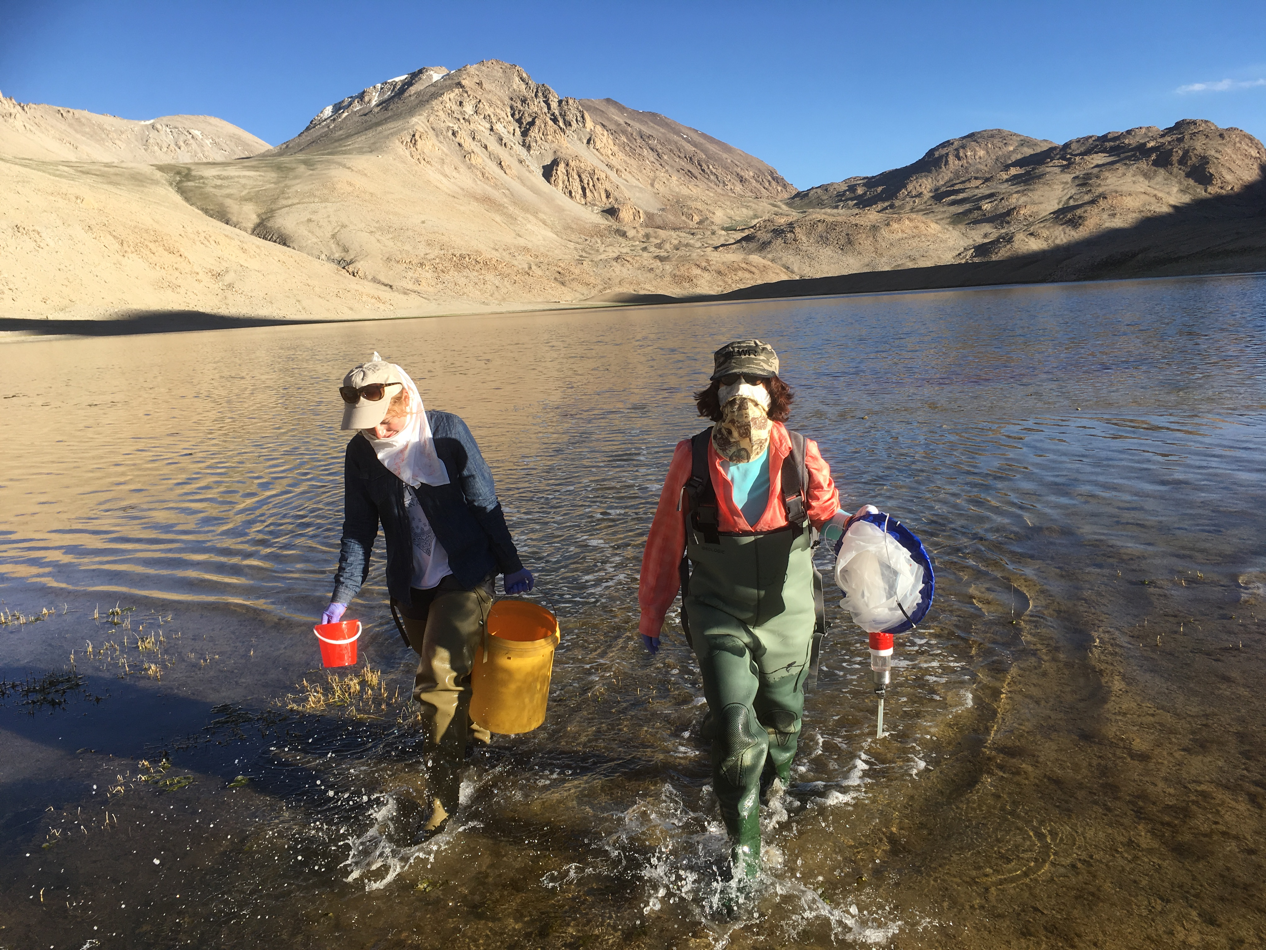 Quest for blue-green fleece. M.Sc. Natalia Khomutovska under the watchful eyes of Dr.Sci. Iwona Jasser is looking for cyanobacteria on the roof of the world. Sunset on Lake Chur-kul not far from the Tajik-Afghan border. Despite the late hour, the sun is unforgiving at 4,200 m a.s.l.